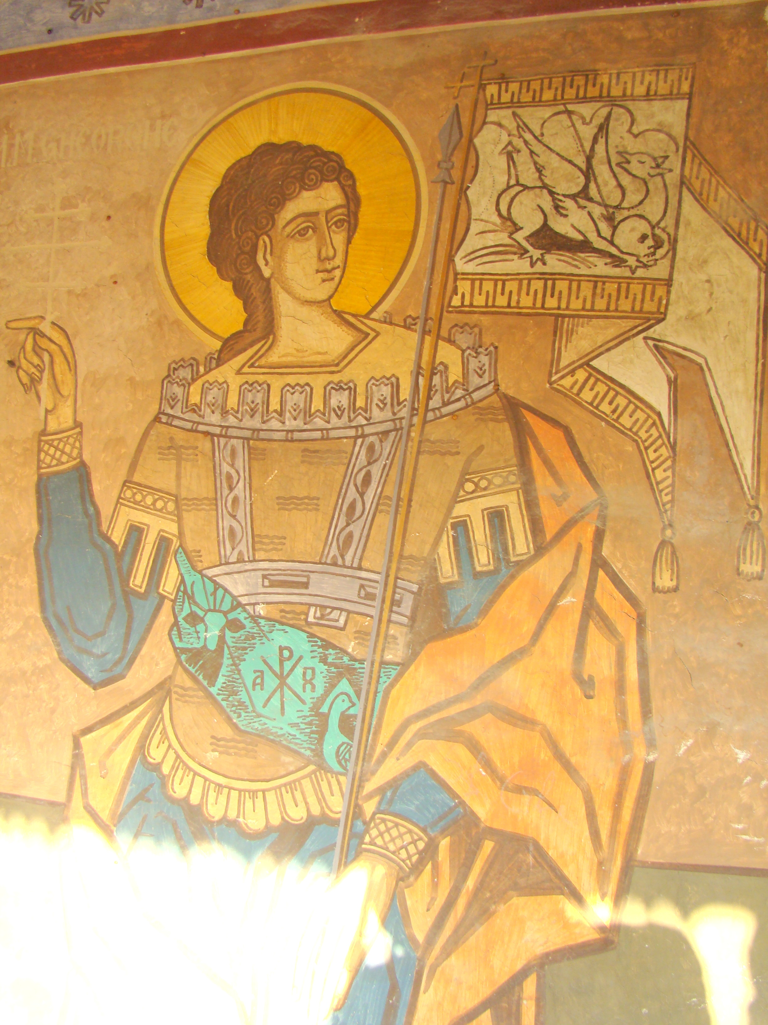 Wooden church in Horăști, Gorj county, Romania